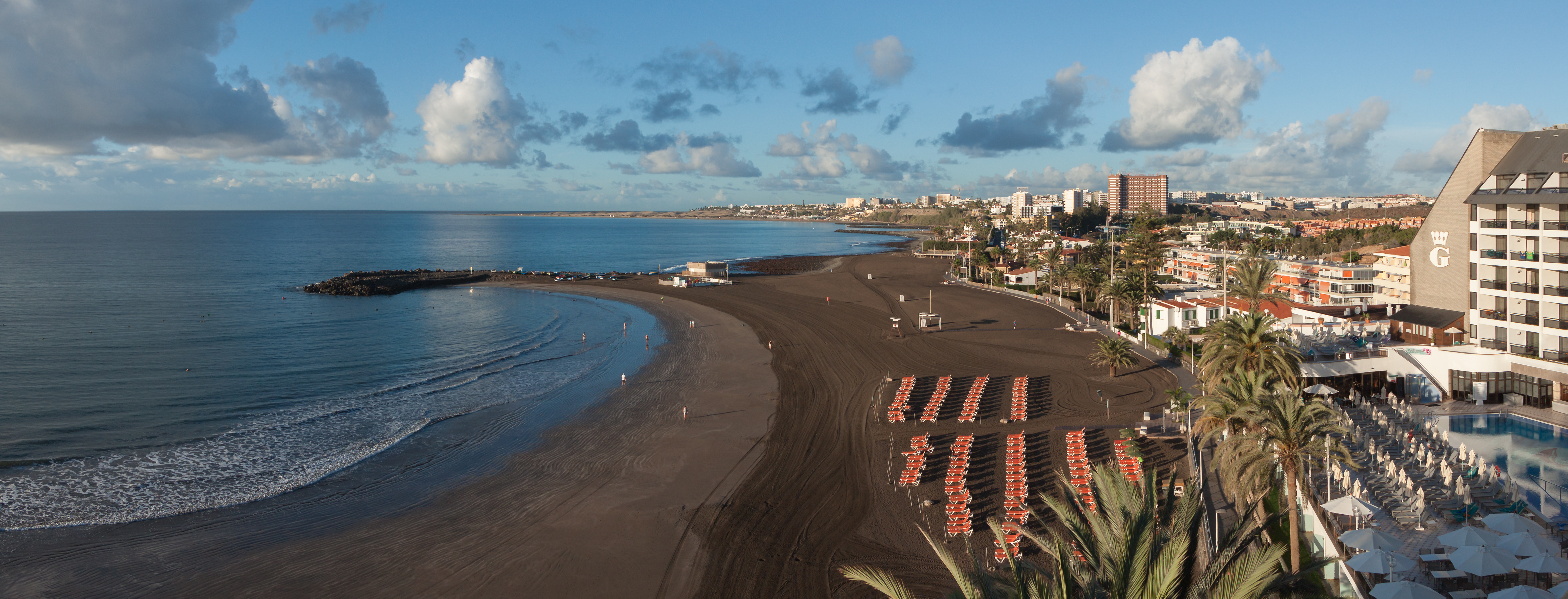 Early morning at the beach of San Agustín, Gran Canaria, Canary Islands, Spain